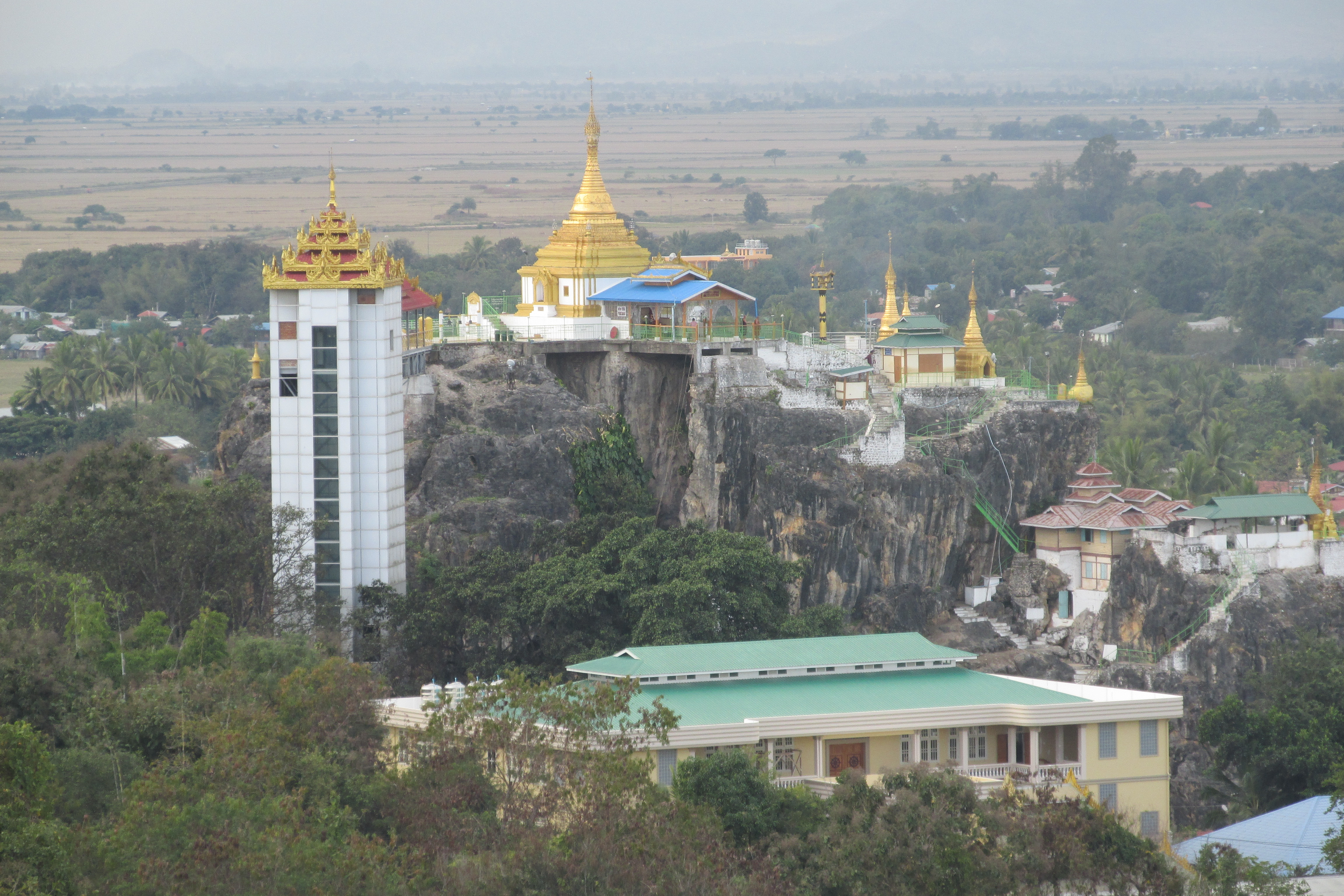 Taung Kwel Pagoda of Loikaw မြန်မာဘာသာ: သီရိမင်္ဂလာ​တောင်ကွဲ​စေတီ​တော်